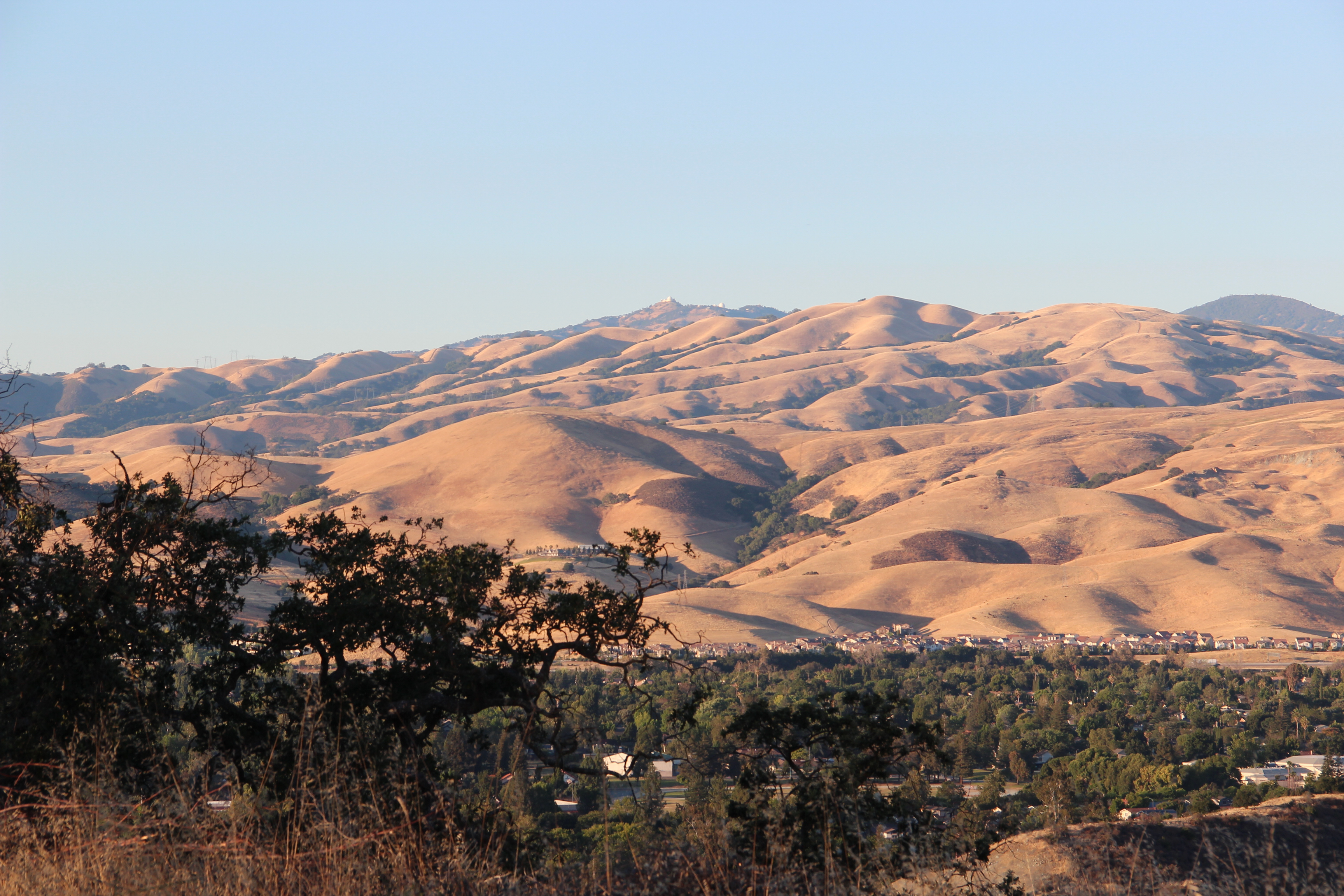 Diablo Range viewed from Santa Teresa County Park, July 2015